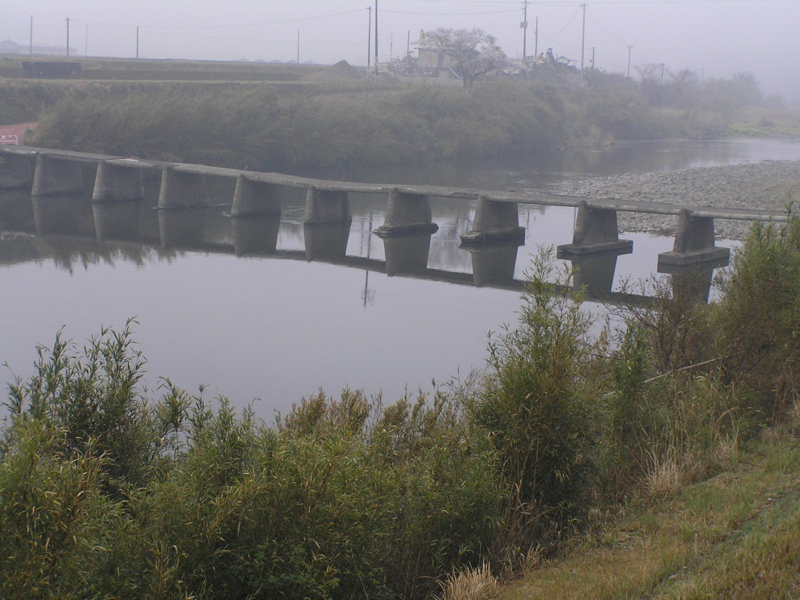 Shimanto-river